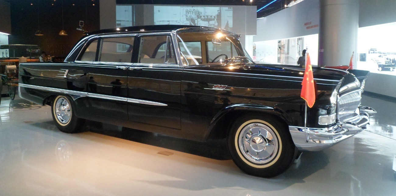 1959 Hongqi CA72 photographed at the Shanghai Automobile Museum, Anting, China.